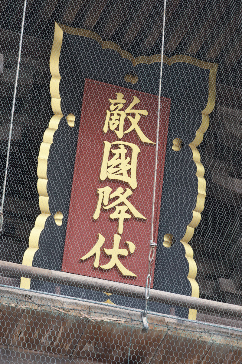 Hakozaki-gu (shrine), in Higashi-ku, Fukuoka city, Japan.